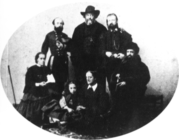 Photograph of Mikhail Bakunin taken during his time in Siberia.